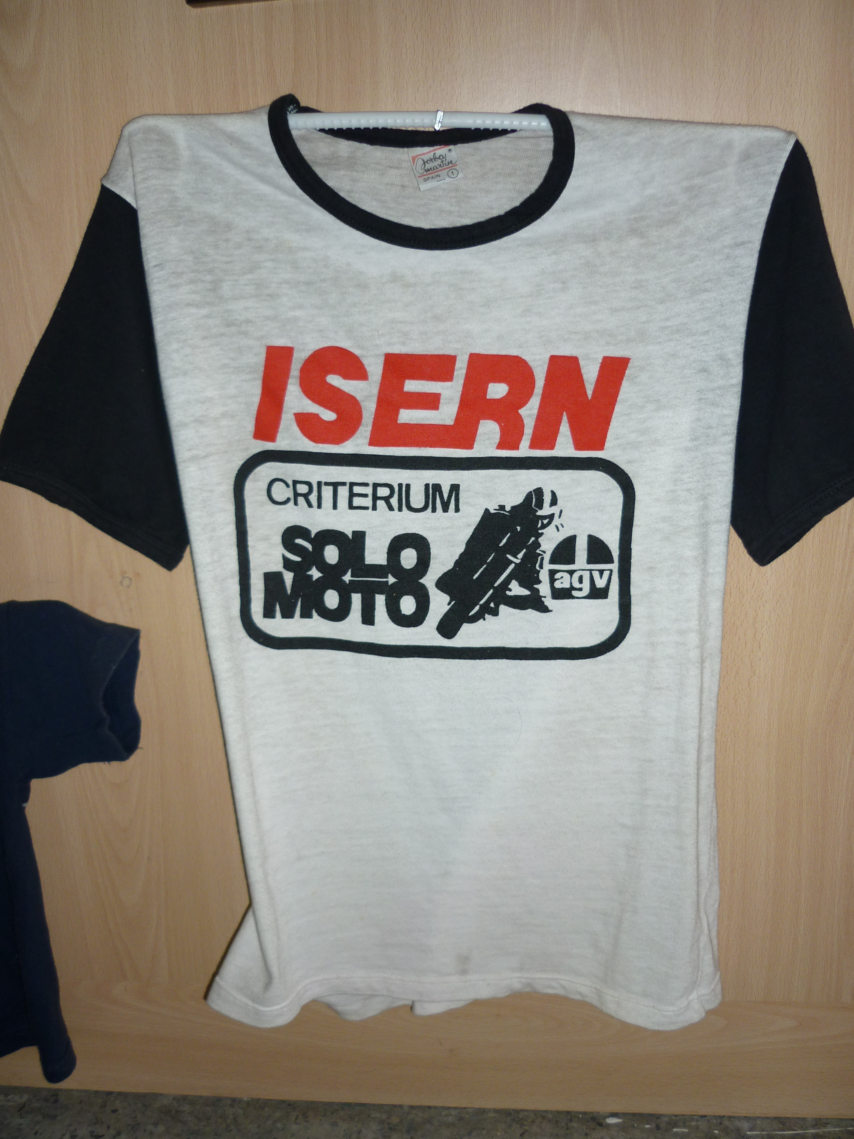 Isern T-Shirt sponsoring the Criterium Solo Moto during the 80's.Isern Motorcycle Museum, Mollet del Vallès (Catalonia).